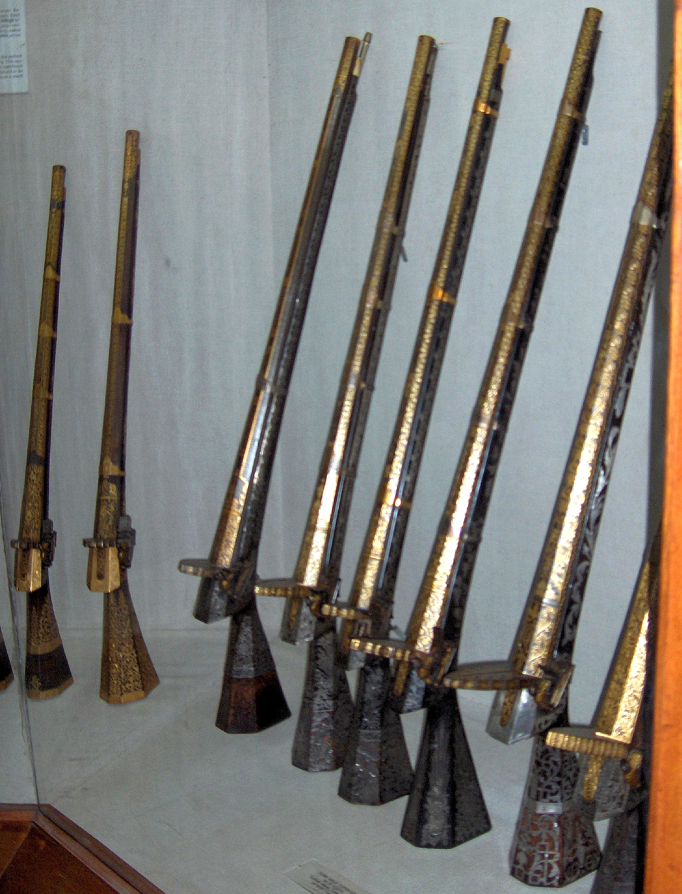 Ottoman flintlock rifles, Topkapı Palace, Istanbul, Turkey